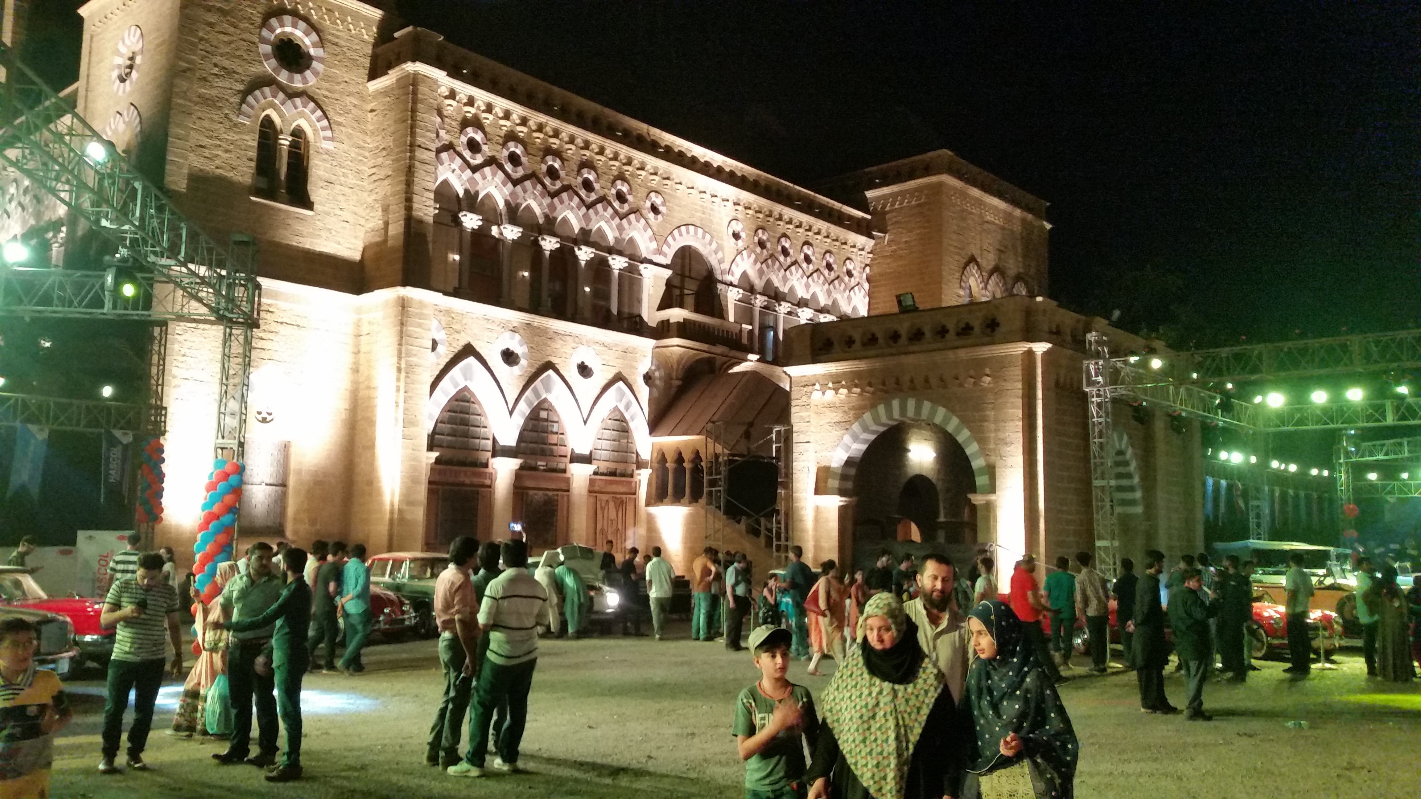 Frere Hall Karachi lit at night